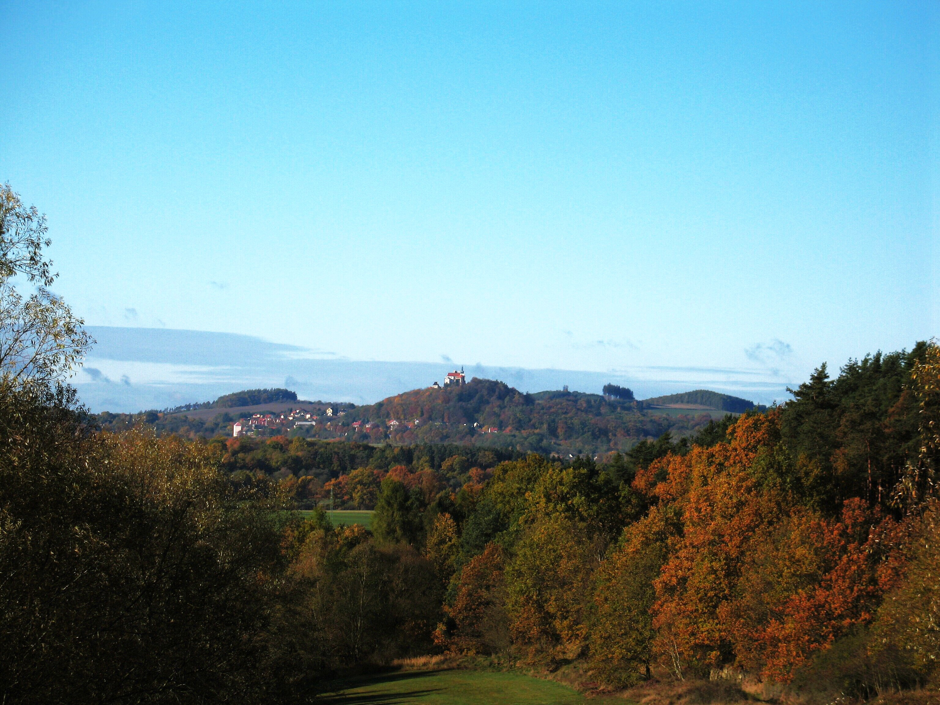 Hill Pivovarská hora near village Vysoký Chlumec (left from Castle), Příbram District, Czech Republic